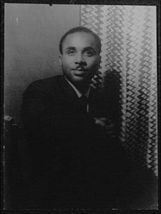 Title: Portrait of Roy Eaton Abstract: 1 photographic print : gelatin silver.